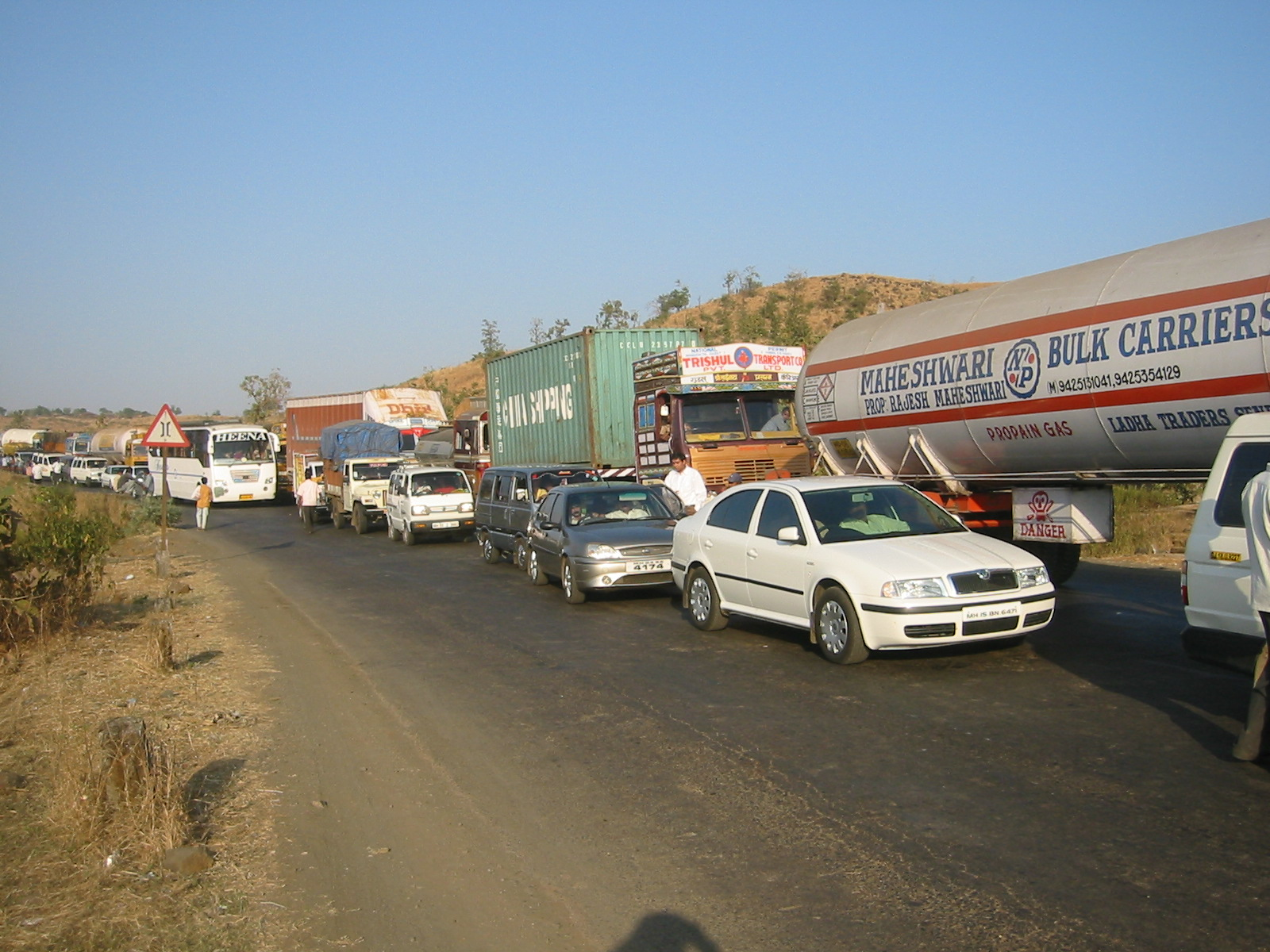 Traffic jam between Nasik and Bombay, January 2007.